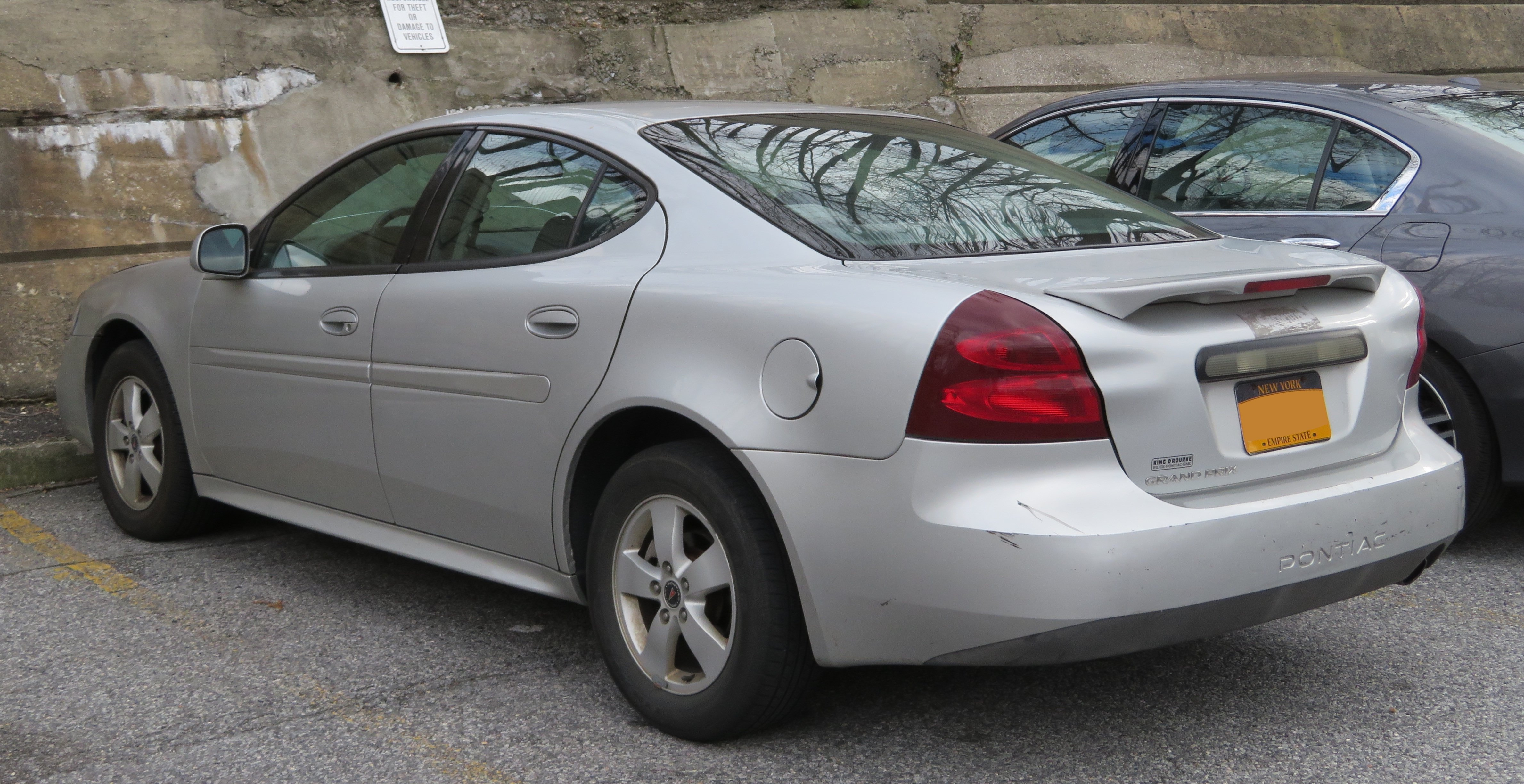 In Queens, New York